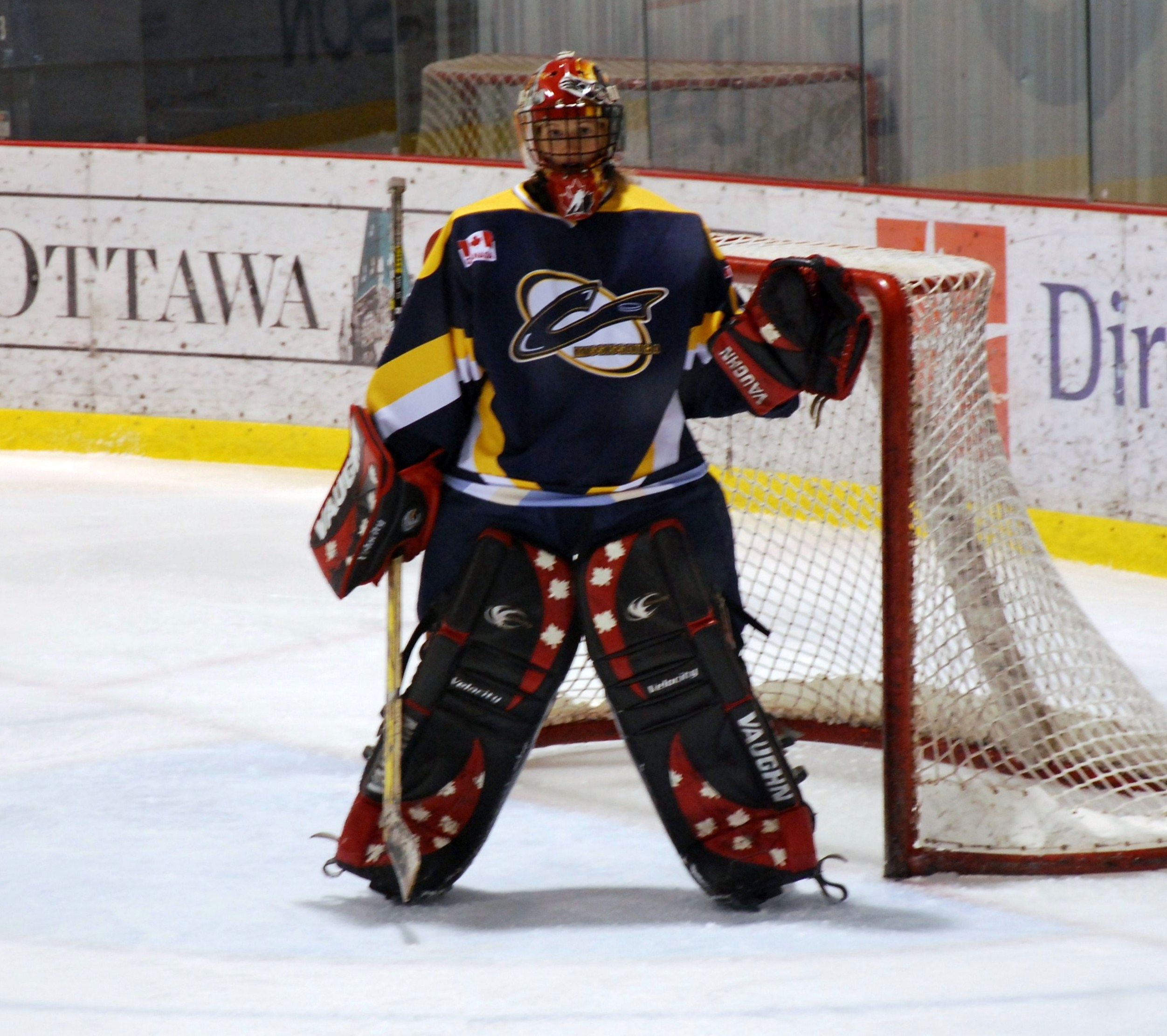 Pictures from Ottawa Senators games during the 2008/09 CWHL season